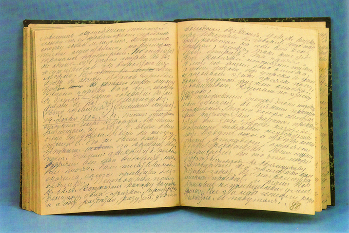 Diary of Leo Tolstoy